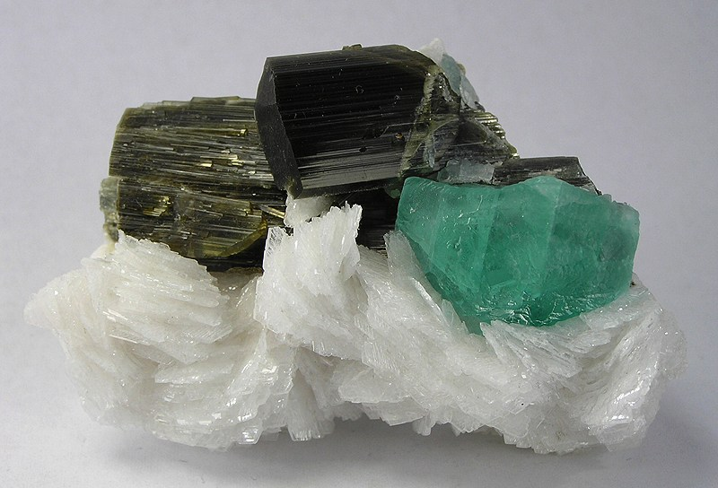 Albite, Fluorite Locality: Shigar Valley, Skardu District, Baltistan, Northern Areas, Pakistan (Locality at ) Size: small cabinet, 8.5 x 6.2 x 4 cm Fluorite, Tourmaline, Albite This sensational combo specimen is absolutely unique in my experience. The color combination just leaps out at you. What you have here is a bright green fluorite crystal sitting beside a glassy, very dark green tourmaline crystal, which itself sits atop a green tourmaline of a lighter color. All sit on a bed of sparkly, bladed stark white Albite. How could you ask for anything more? One thing is for sure � you will not see a specimen quite like this one again. It is just one of those unique ones that comes around once in awhile that stands out from everything else. Actually, its good upside down from whats shown, too, with the ALBITE as the focal point of interest (see bottom photo)...a rare specimen where really the accessory matrix mineral could also double AS the mineral of interest here. and the crystals are completely terminated and sparkly, way above normal albite quality.